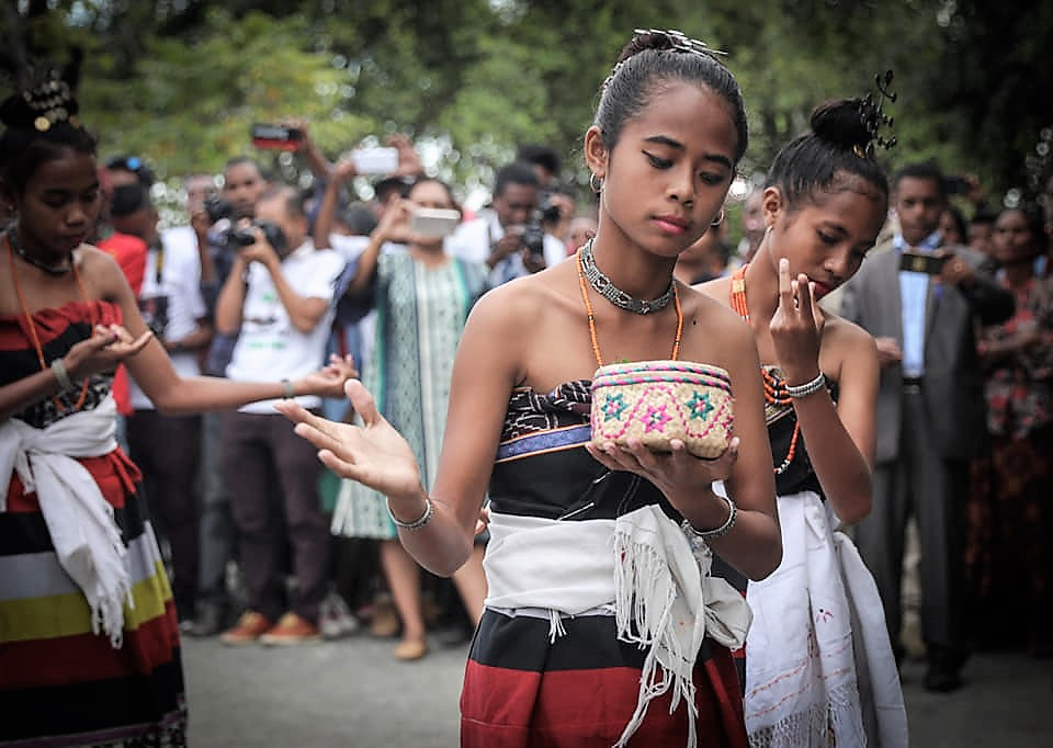 Women in traditional clothing in Suai Loro, Covalima.